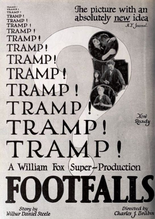 Advertisement for the American mystery film Footfalls (1921) with Estelle Taylor and Tyrone Power, Sr., on page 4 of the December 17, 1921 Exhibitors Herald.